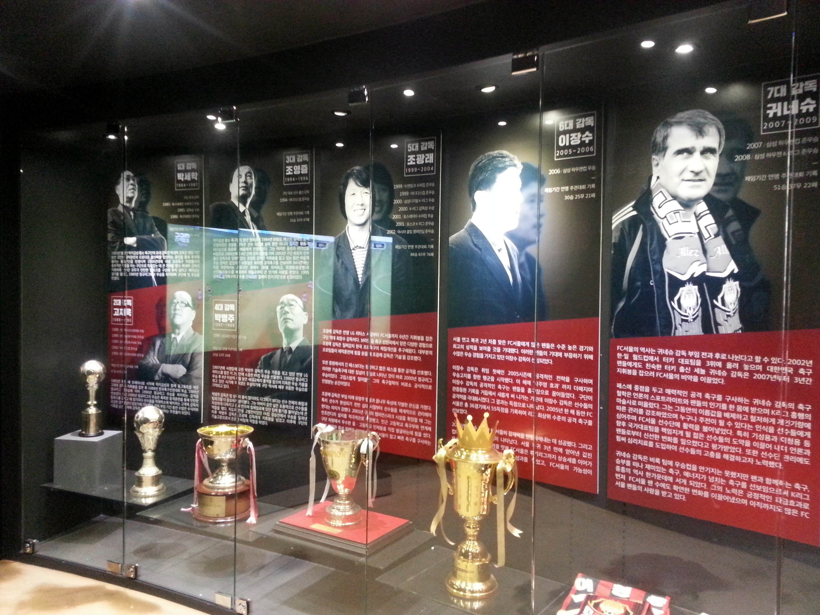 FC Seoul FAN PARK, 'The History' Exhibit hall